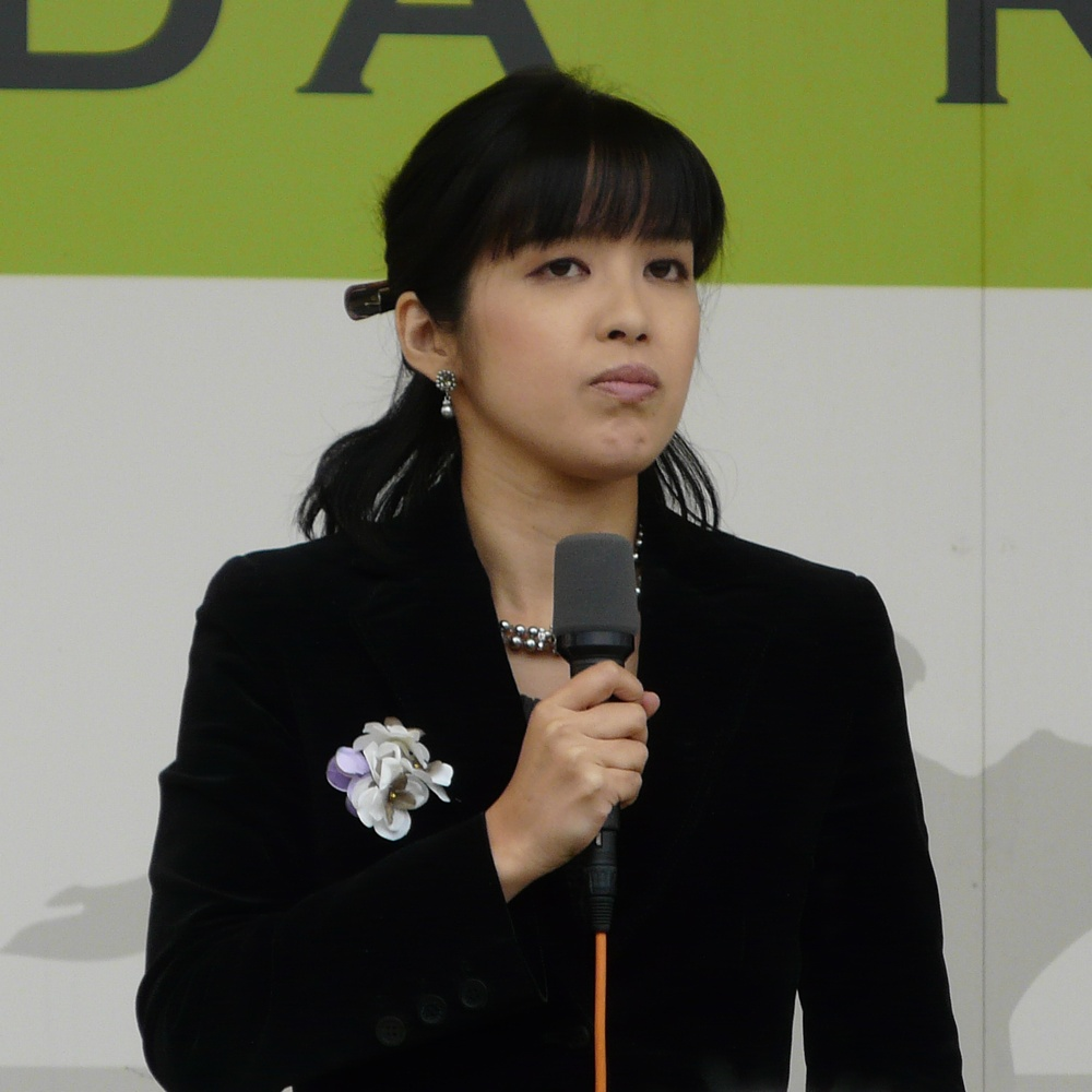 Inoue-Oaks20111123